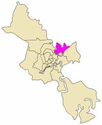 position of Thu Duc district in an outline of the metropolitan area of HCMC (Ho Chi Minh City, Vietnam) - ISO code VN-F-HC. Keywords: map, outline, city, Ho Chi Minh City, HCMC, HCM, Thu Duc district, quan Thu Duc.